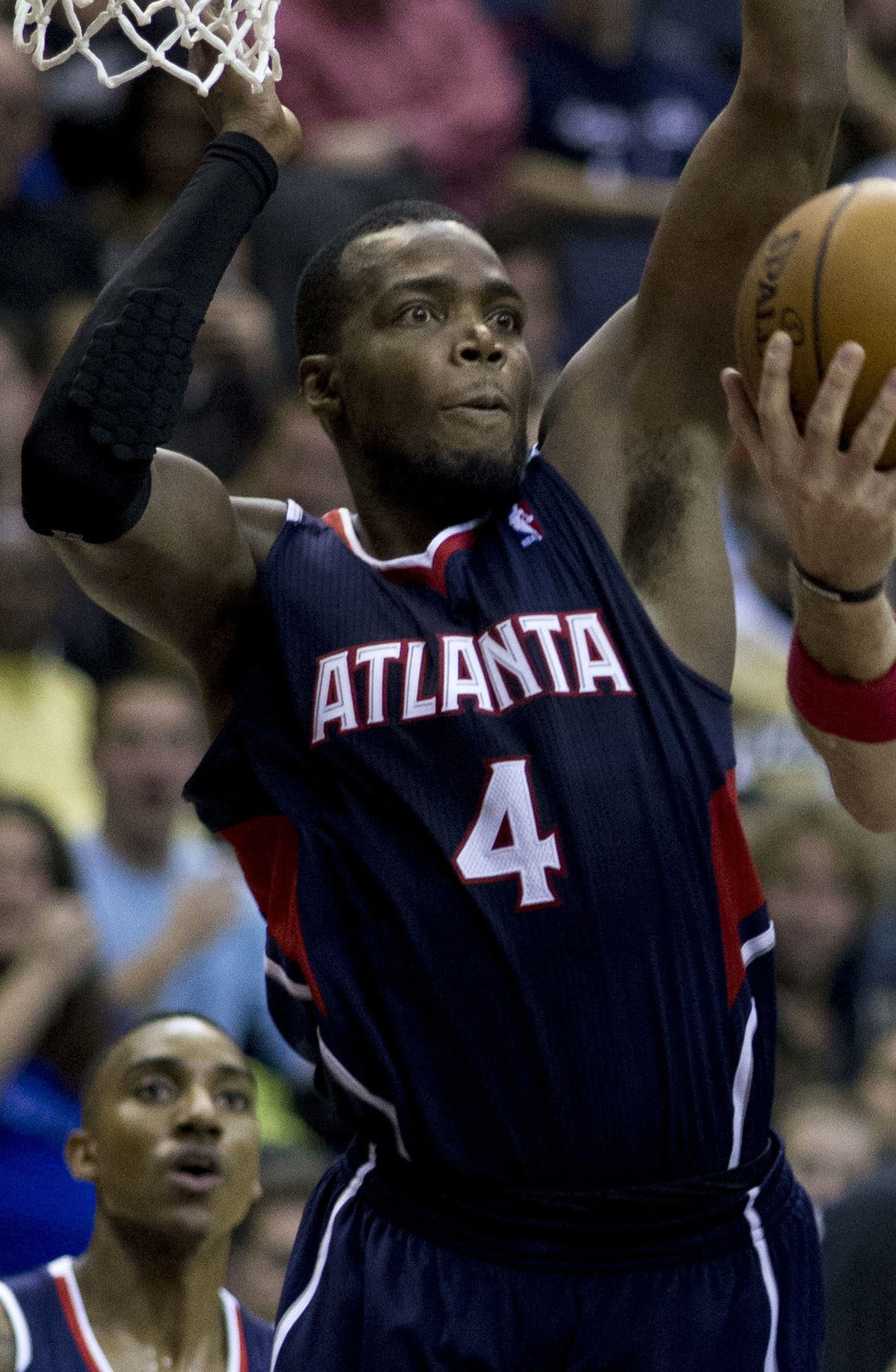 Paul Millsap of the Atlanta Hawks in 2013